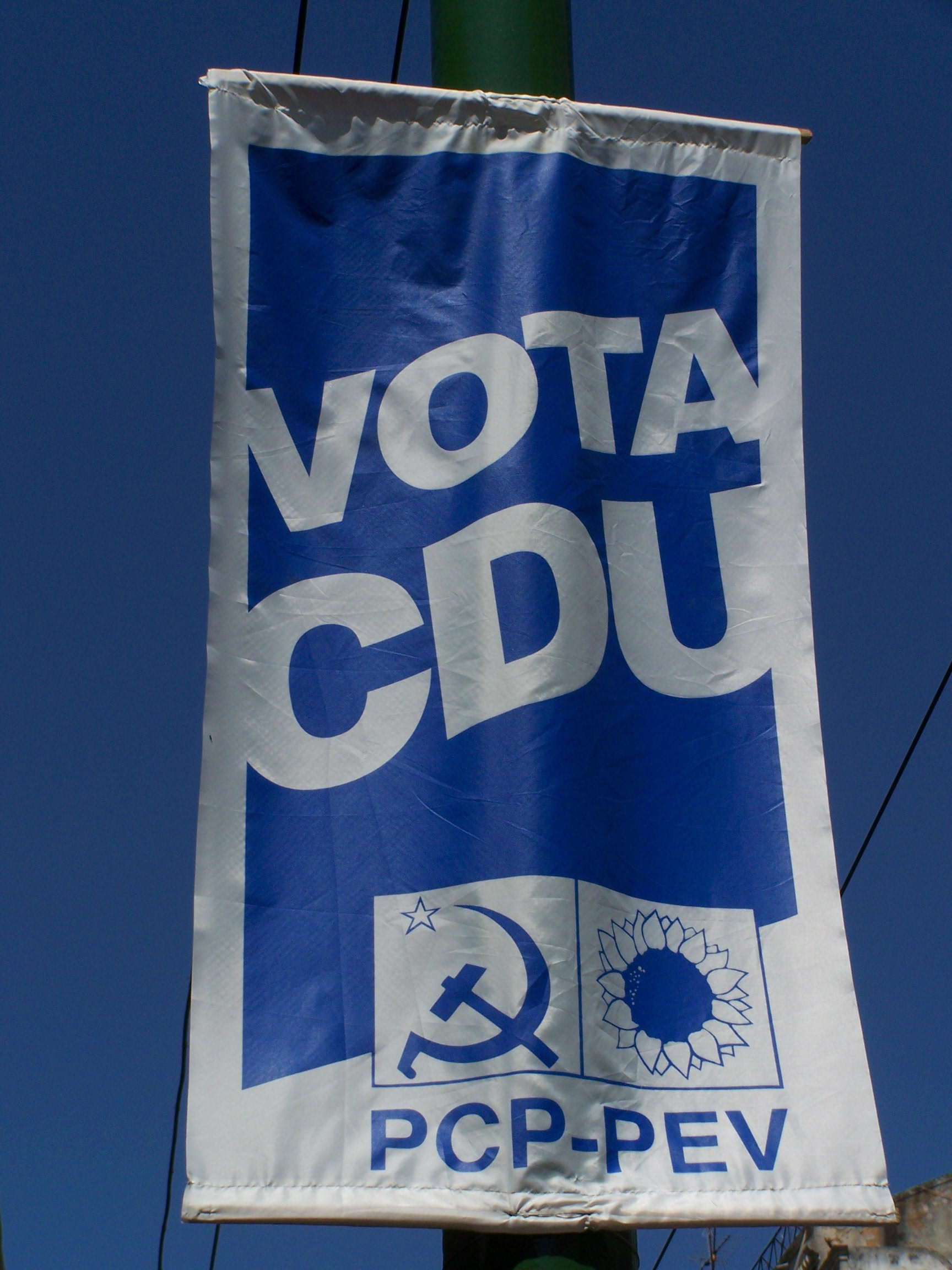 election campaign of the portuguese party coalition CDU in Lisbon, Portugal